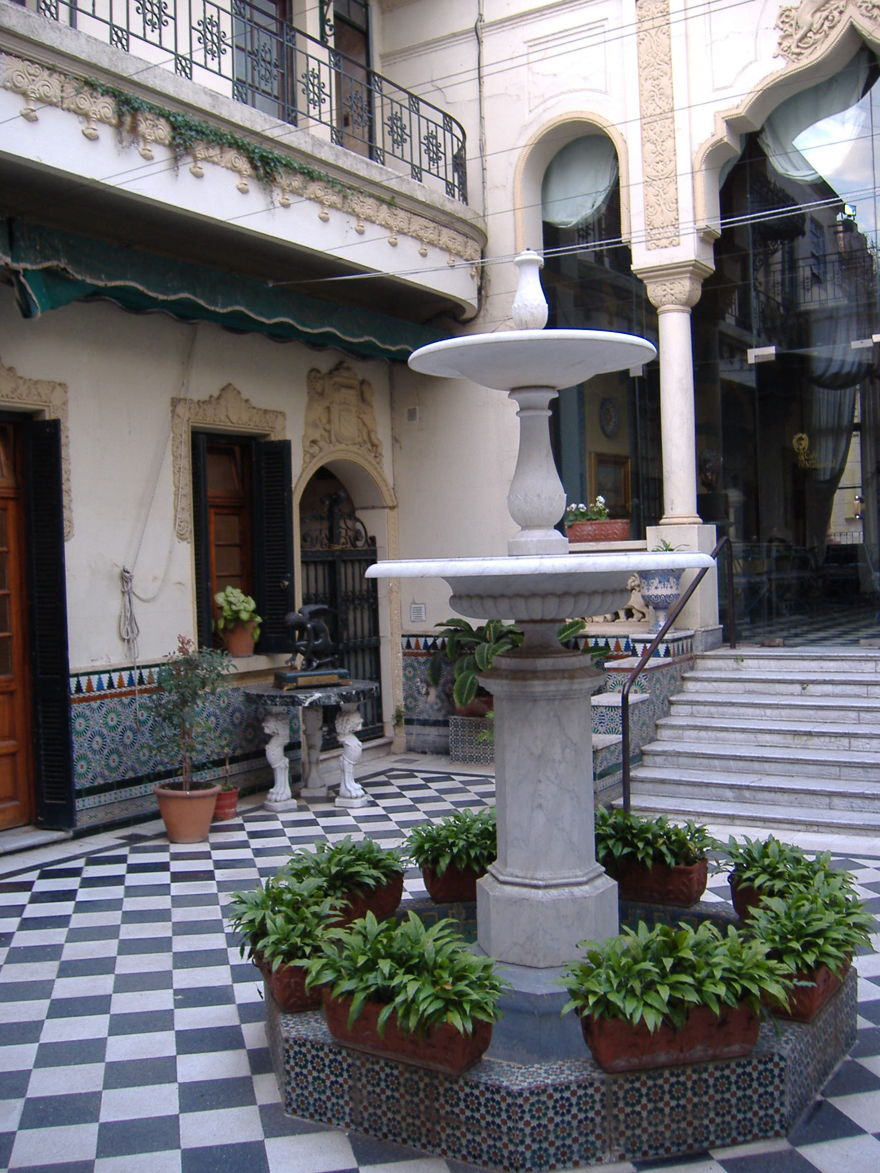 The inner courtyard patio and fountain, of the Firma y Odilo Estévez Municipal Decorative Art Museum, Rosario, Argentina.